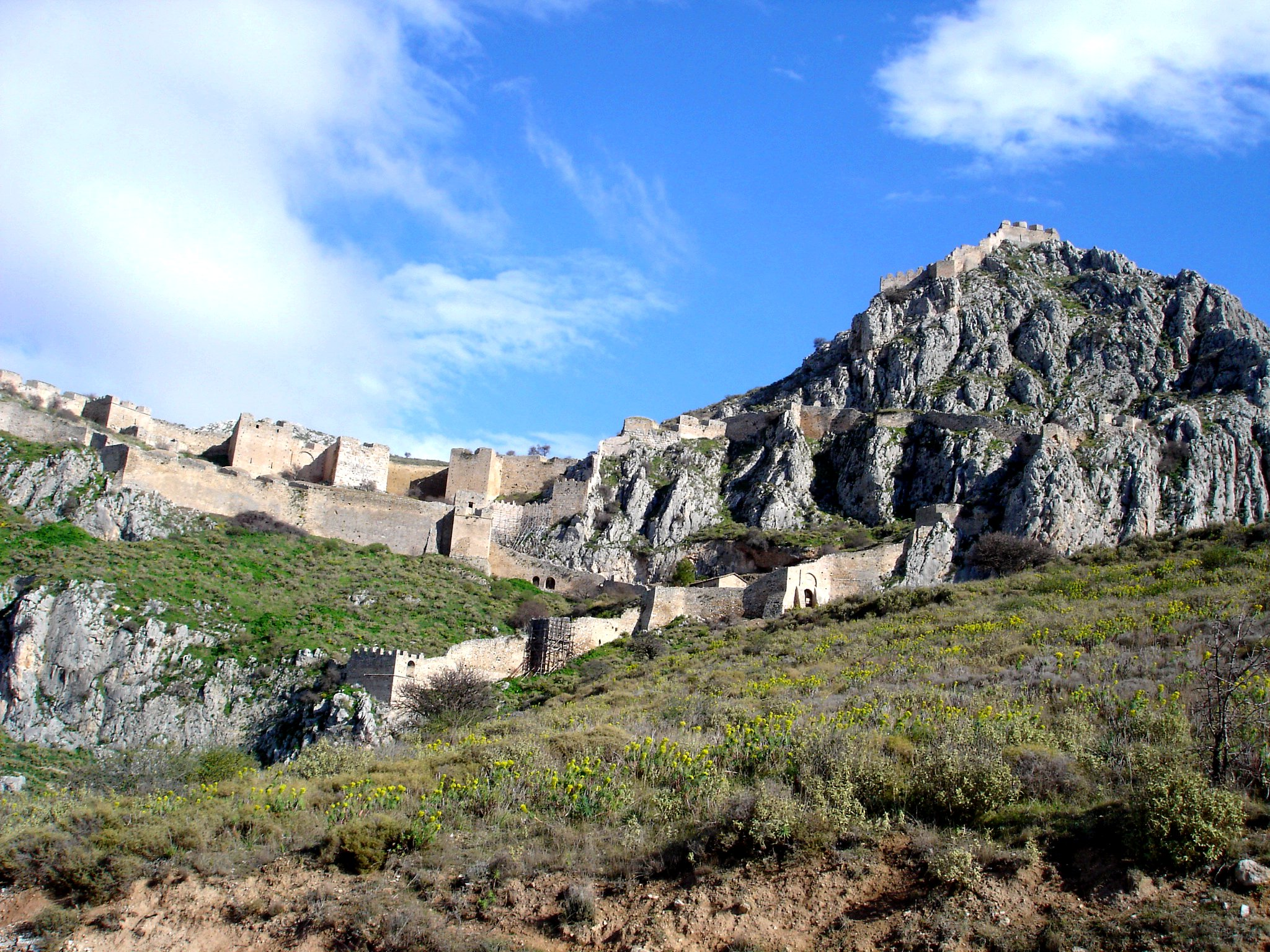 Acrocorinth. Entrance. (View to west)